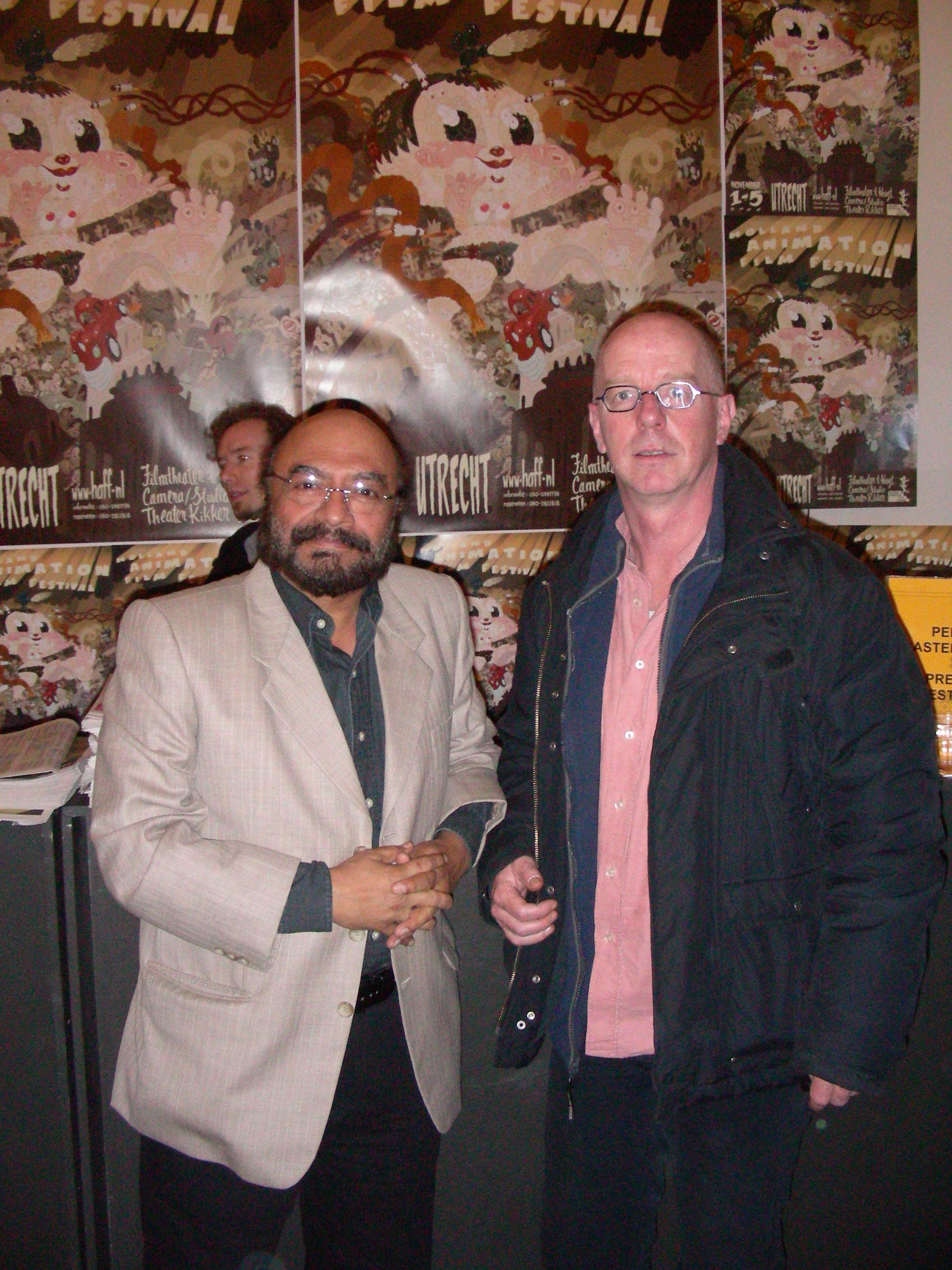 Govind Nihalani